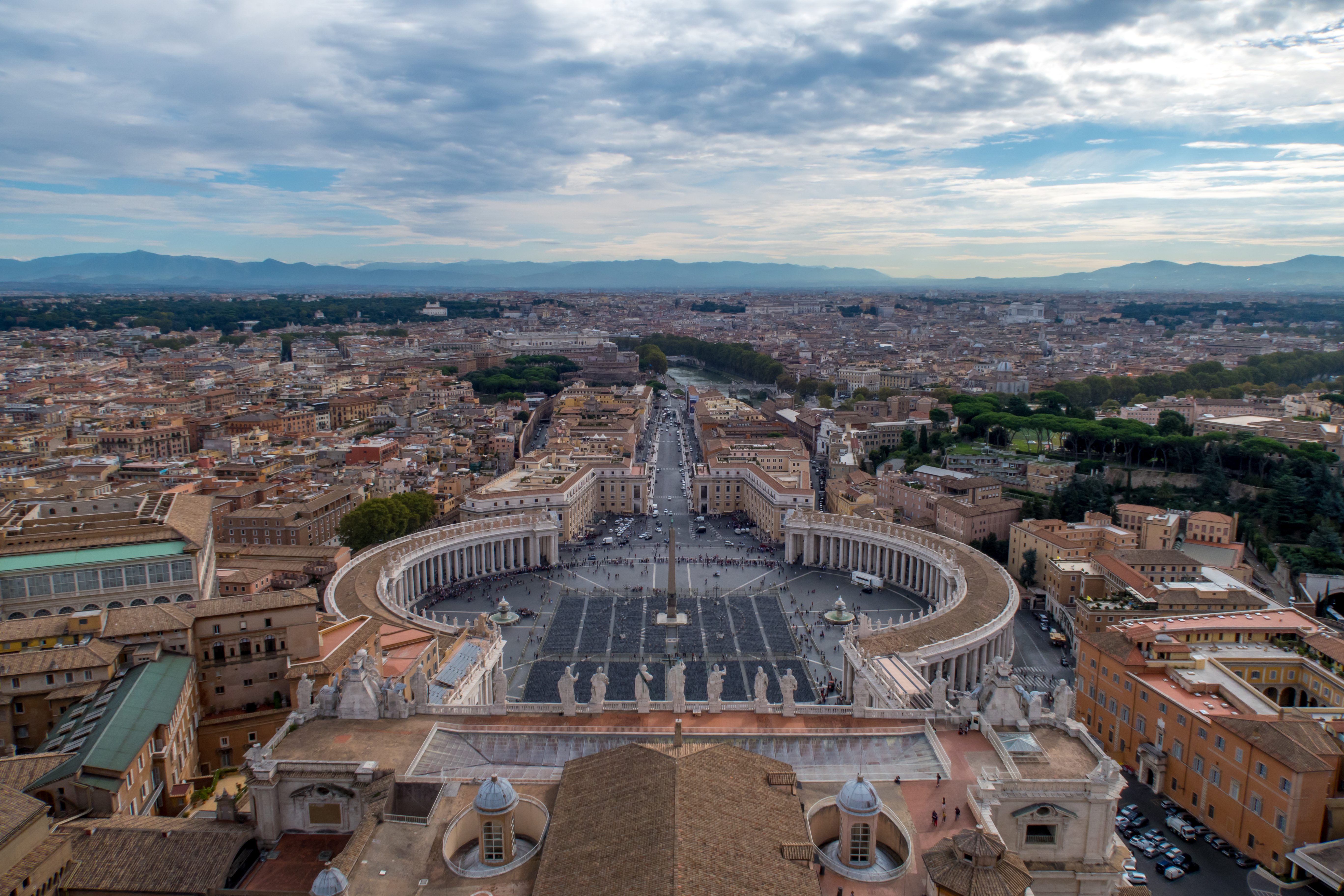 St. Peter's Square from the top of Michelangelo's Dome